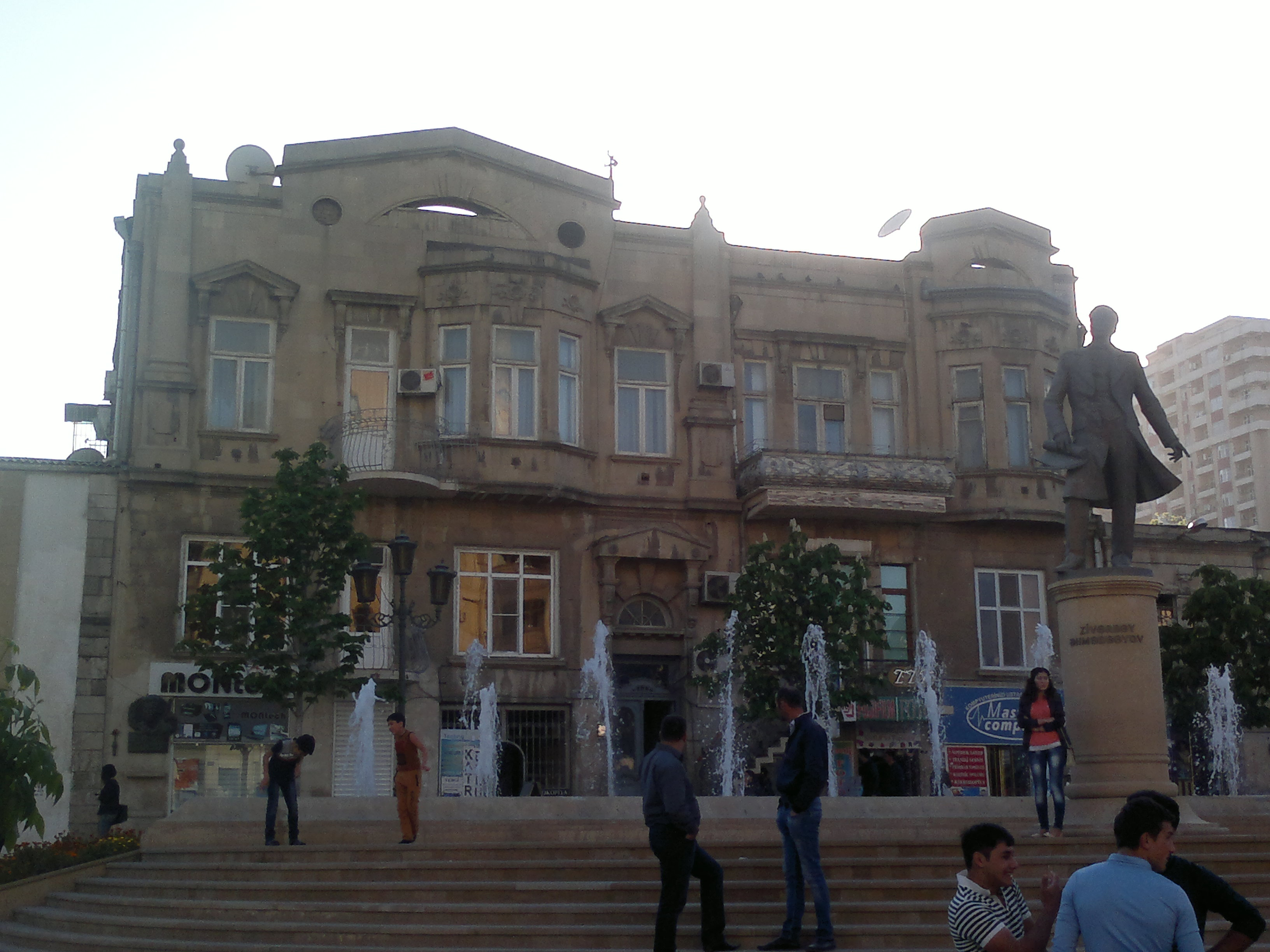 Building on Zargarpalan Street 133. Mehdi Huseynzade lived here. Built by Ziverbey Ahmedbeyov.